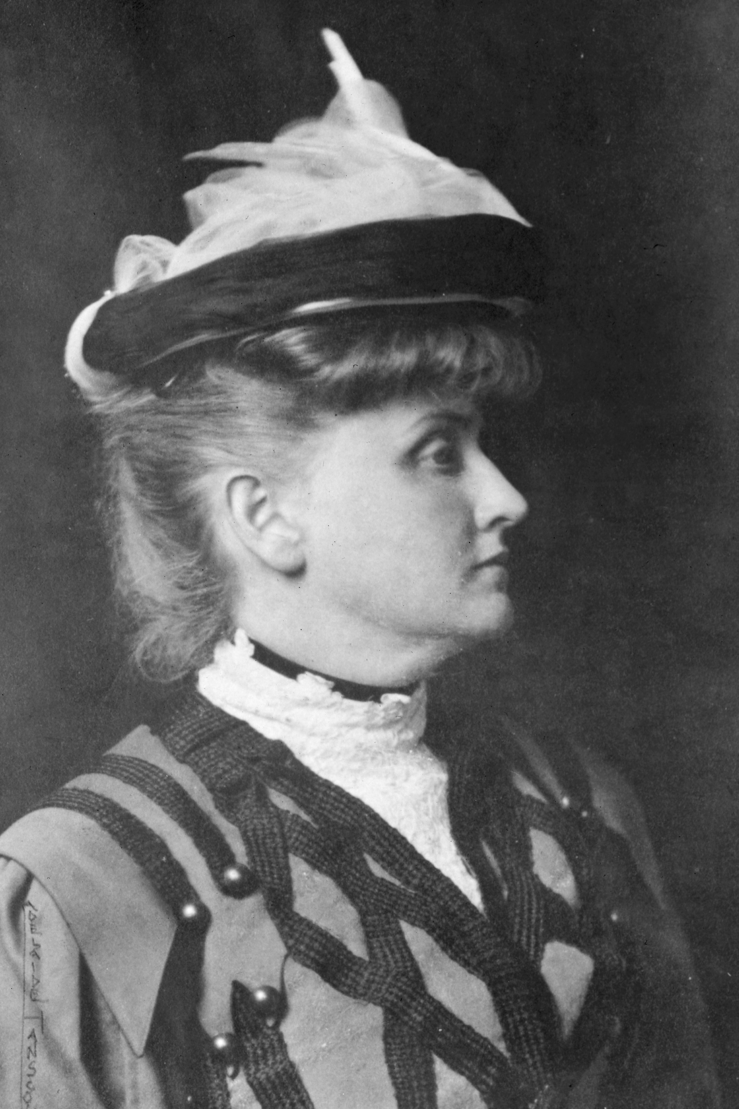 Gertrude Franklin Horn Atherton, head-and-shoulders portrait, 1904.